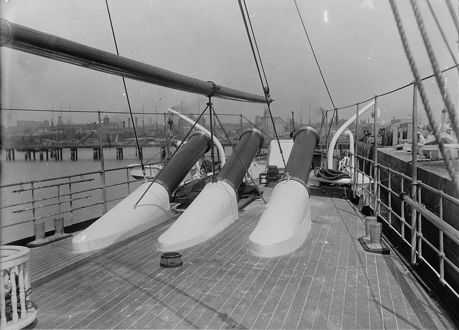 U.S.S. Vesuvius : muzzles of dynamite guns. 1 negative : glass ; 8 x 10 in.